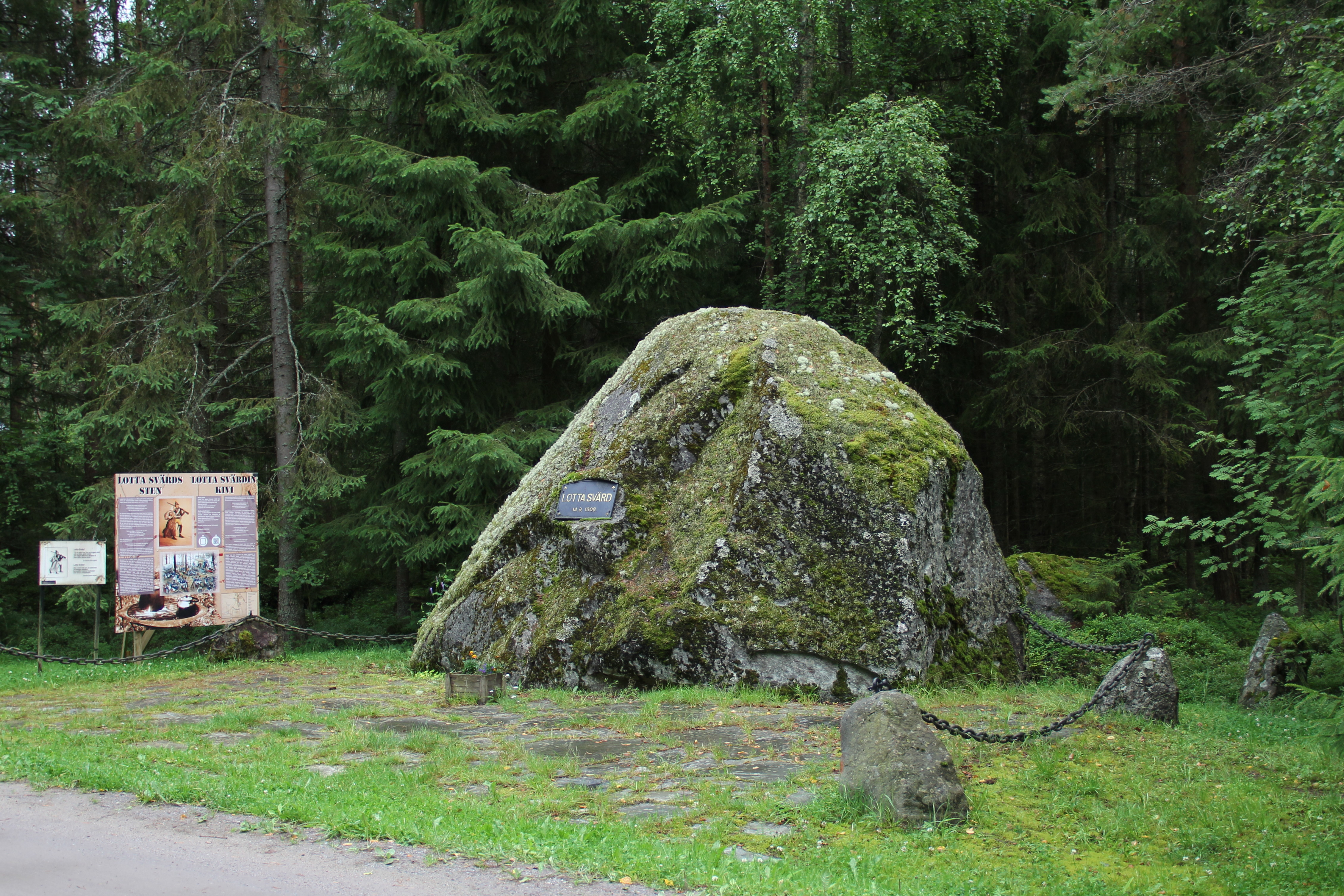 "Lotta Svärd stone", glacial erratic, Oravais, Vörå, Finland. - Memorial connected to Battle of Oravais.